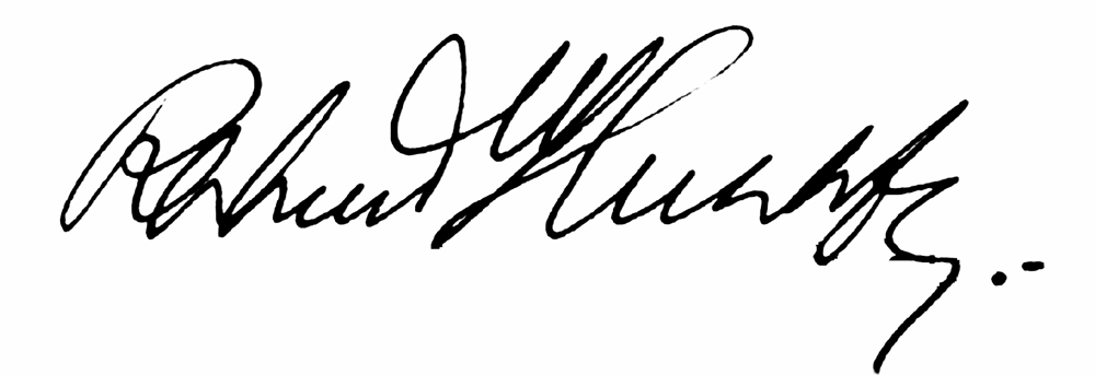 Rabbi Samuel Hirschfeld from Biala, signature